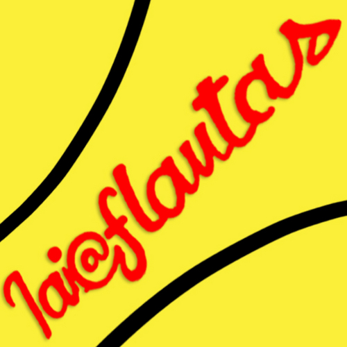 logo Yayoflautas